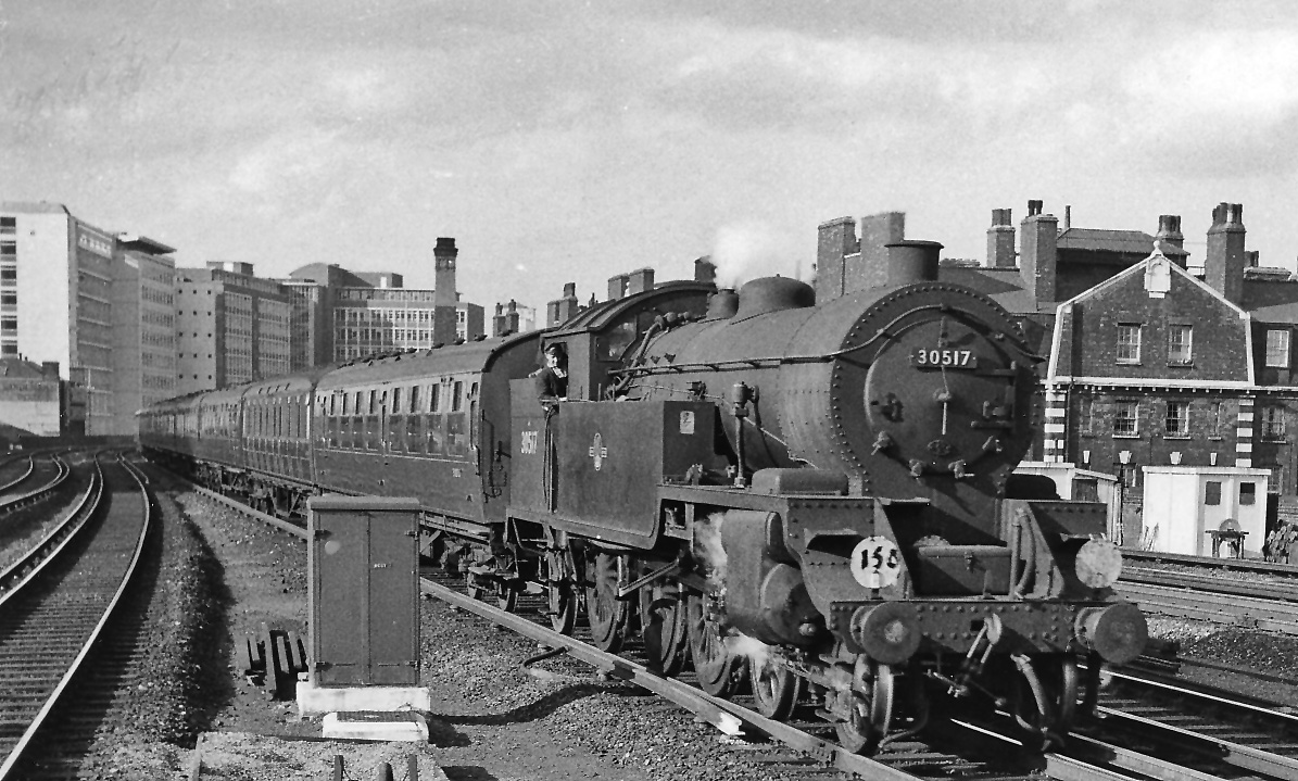 Empty stock train from Waterloo approaching Vauxhall View northward, towards Waterloo: ex-LSW main line out of Waterloo. The locomotive is ex-LSW Urie H16 class 4-6-2T No. 30517 (built 11/21, withdrawn 12/62). During the week these 4-6-2Ts were used on transfer freight duties, but were needed in addition to the usual M7 0-4-4Ts on Summer Saturdays.